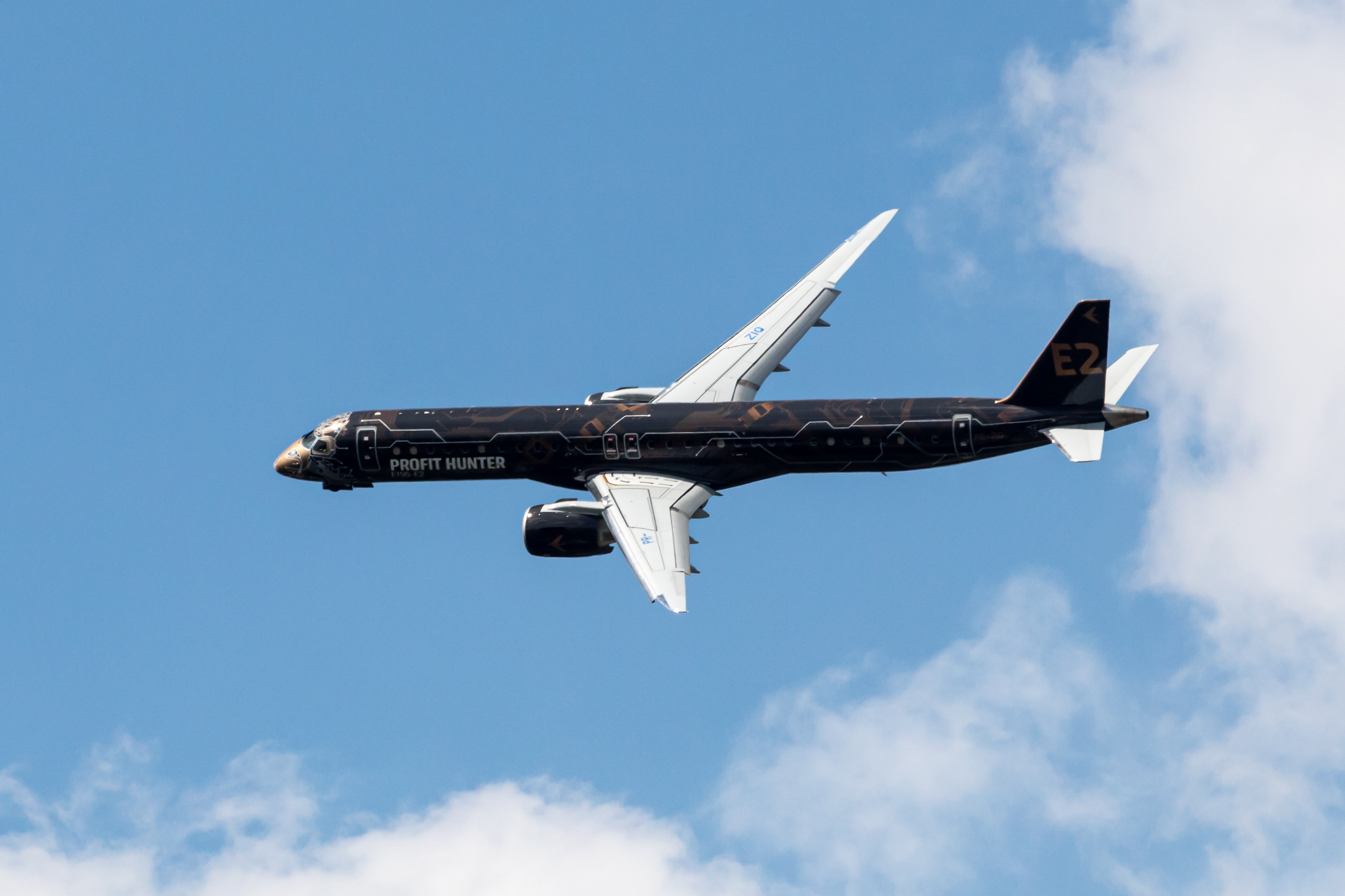 Embraer E195-E2 on flying display at Paris Air Show 2019